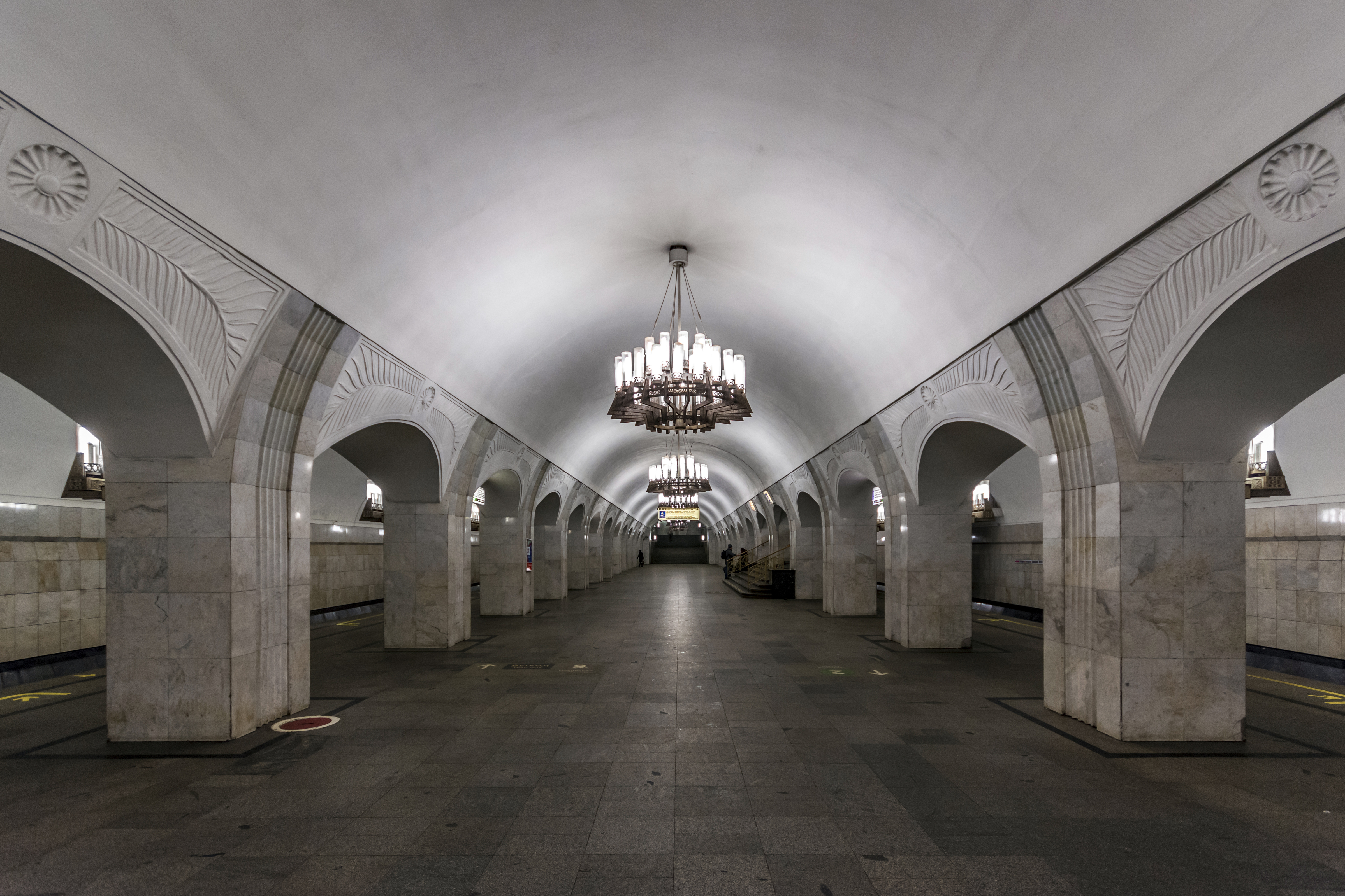 Pushkinskaya Station of Moscow Subway